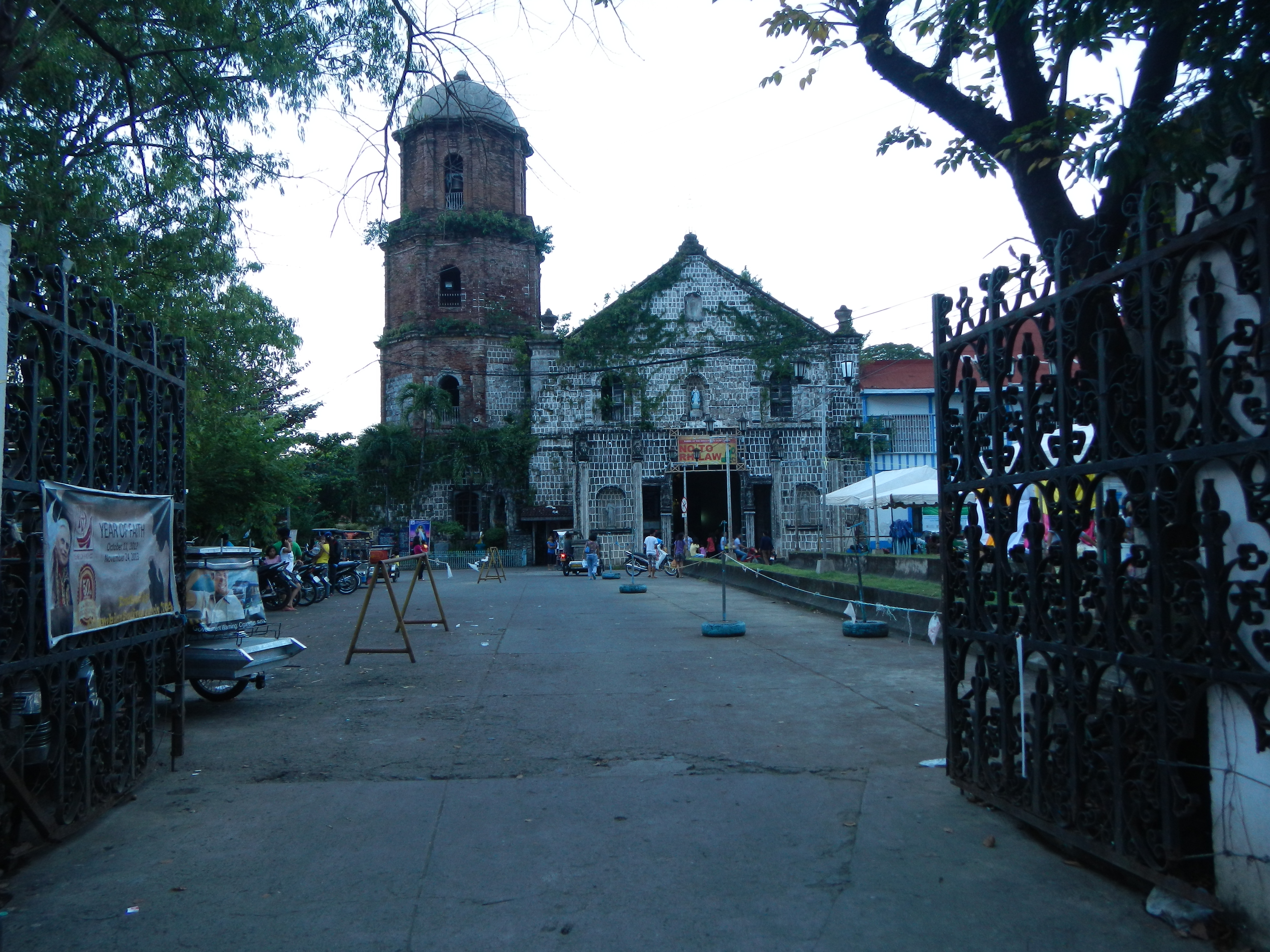 Upload Wizard photos - of the - the calamay, the Public Market, Commercial Buildings, Centro, Town Proper, downtown and the - Simbahan ng Balayan, the Immaculate Conception Parish Church of Balayan - en, Balayan, Batangas, Philippines. NCCA National Heritage Site; the first church was built of light materials in 1579; the Jesuits built a stone church in 1749 and was replaced by the present church that was built after 1753 supervised by Filipino priests - it belongs to the Roman Catholic Archdiocese of Lipa[1], Vicariate I: Vicariate of Saint Francis Xavier, Barangay 5, Centro, Town Proper, a Historic landmark, of - Balayan, Batangas[2] (a first class municipality in the Province of Batangas, Philippines; 2010 Philippine Census, a population of 81,805 people; politically subdivided into 48 barangays; incumbent officials Mayor – Emmanuel Salvador O. Fronda, Vice-Mayor – Joel T. Arada [3] Coordinates: 13°59'2"N 120°44'45"E [4] geographical location: Batangas, Region 4, Philippines, Asia geographical coordinates: 13° 56' 25" North, 120° 44' 1" East).